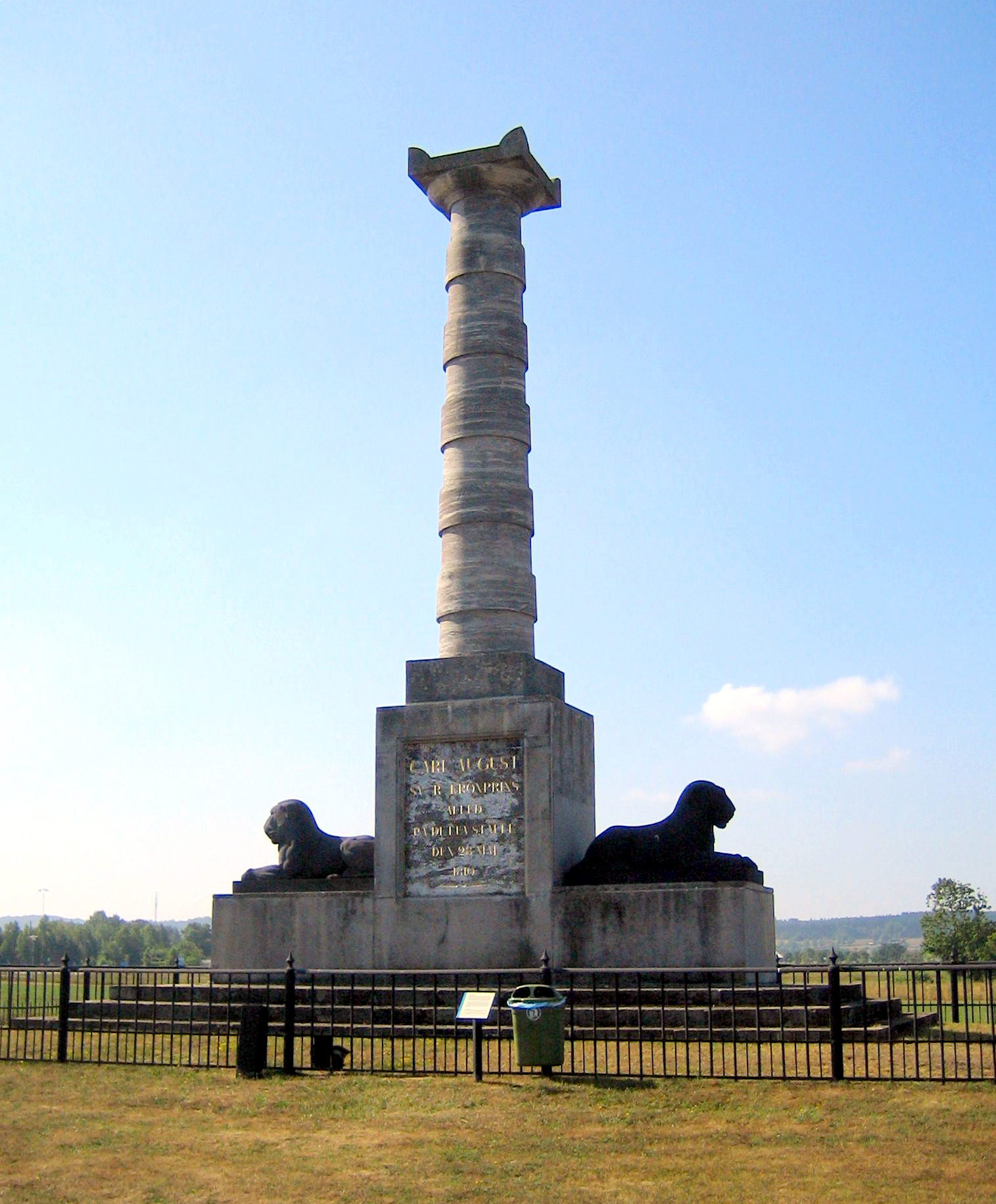 The monument in Kvidinge, Scania, Sweden. It commemorates the death of prince Carl August 1810.